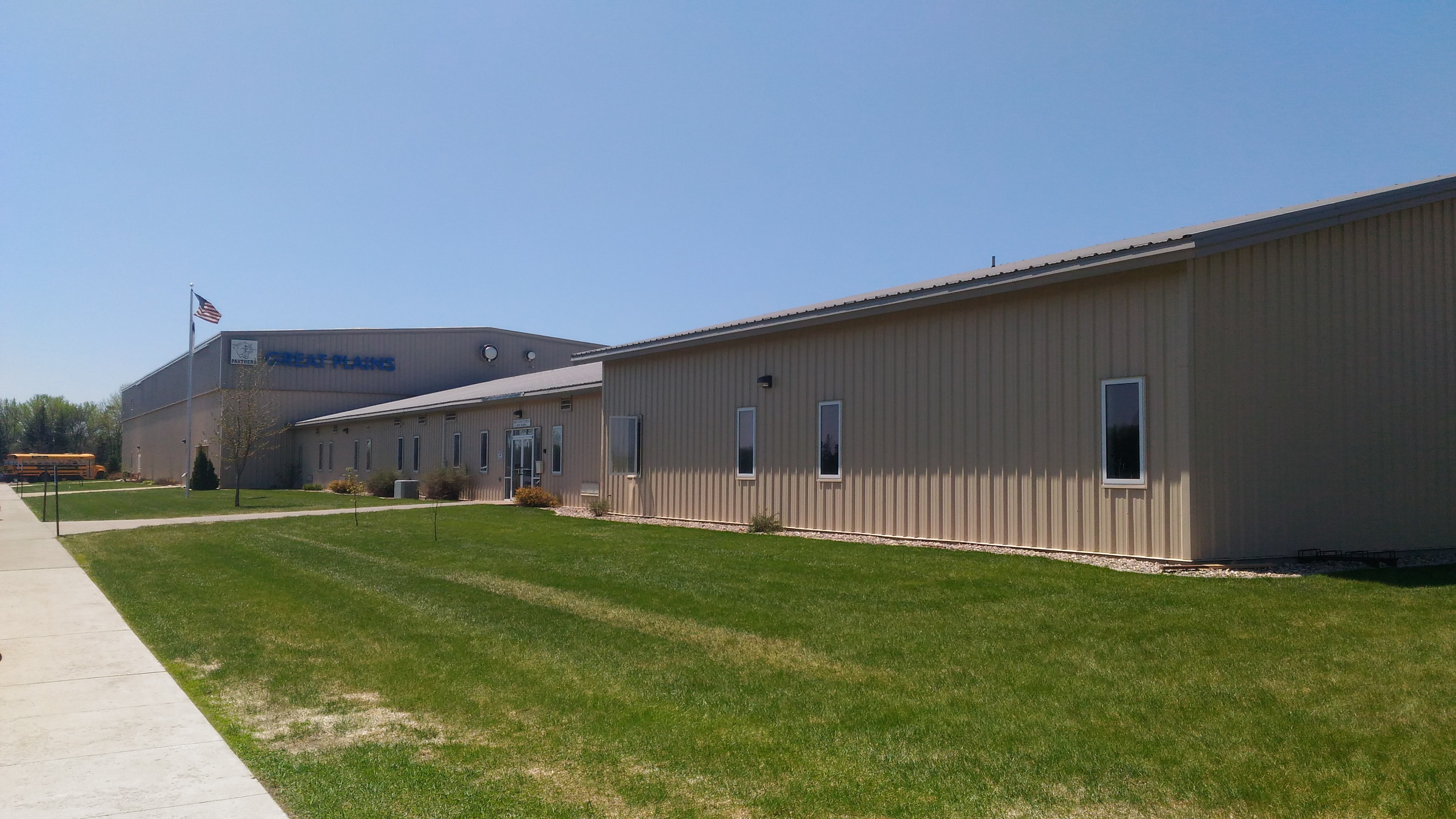 Great Plains Lutheran High School, in Watertown, South Dakota. Taken with a mobile phone, 11 May 2017.